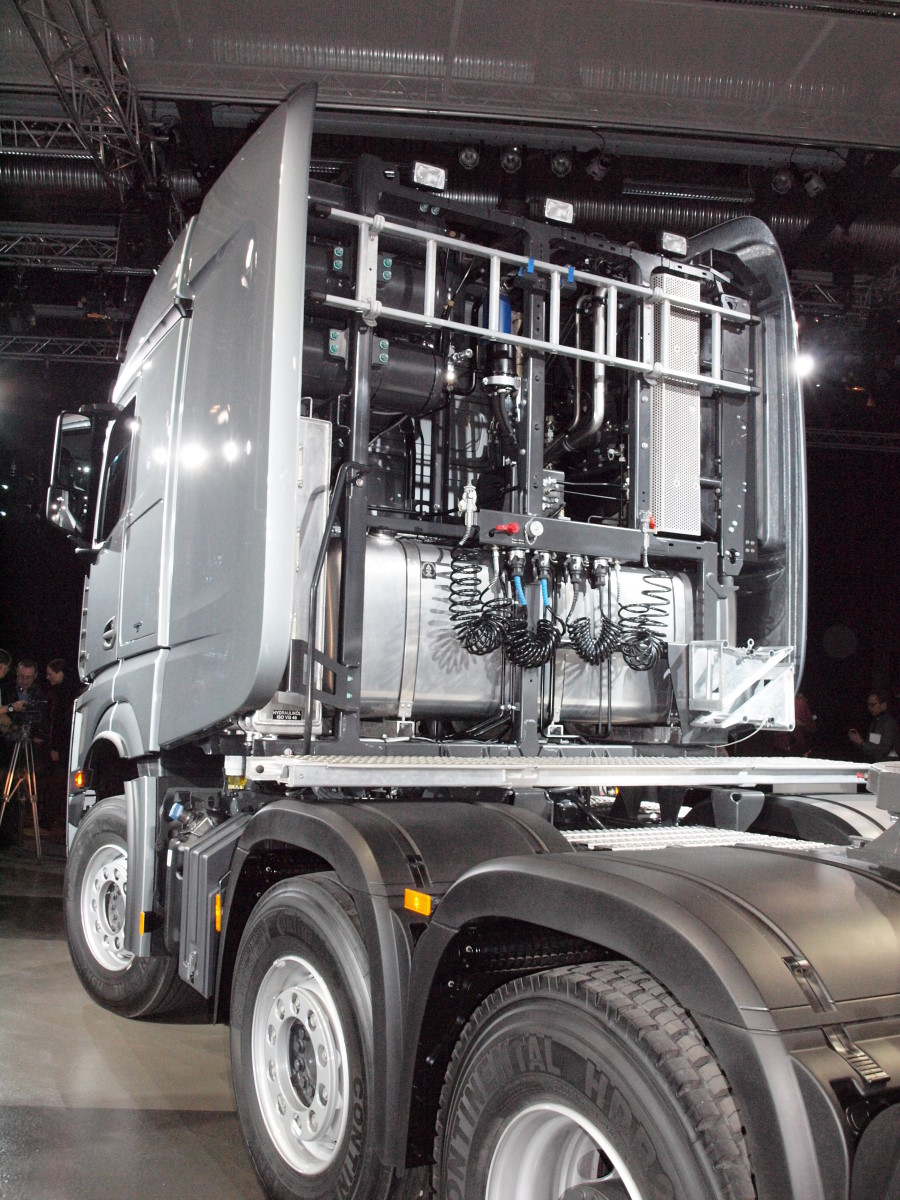 Mercedes-Benz Arocs SLT cooltower